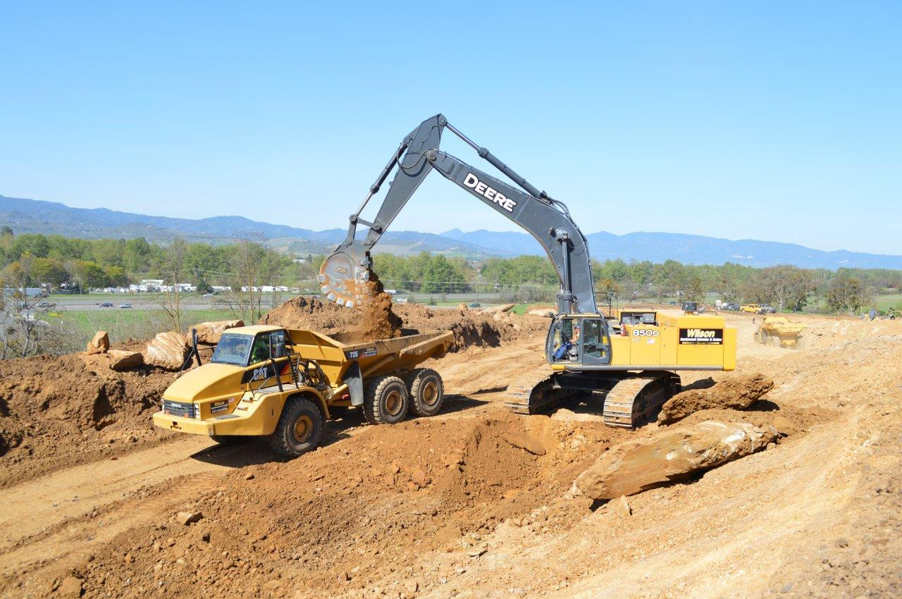 Loading a dump truck as work is under way on the Fern Valley Interchange project.